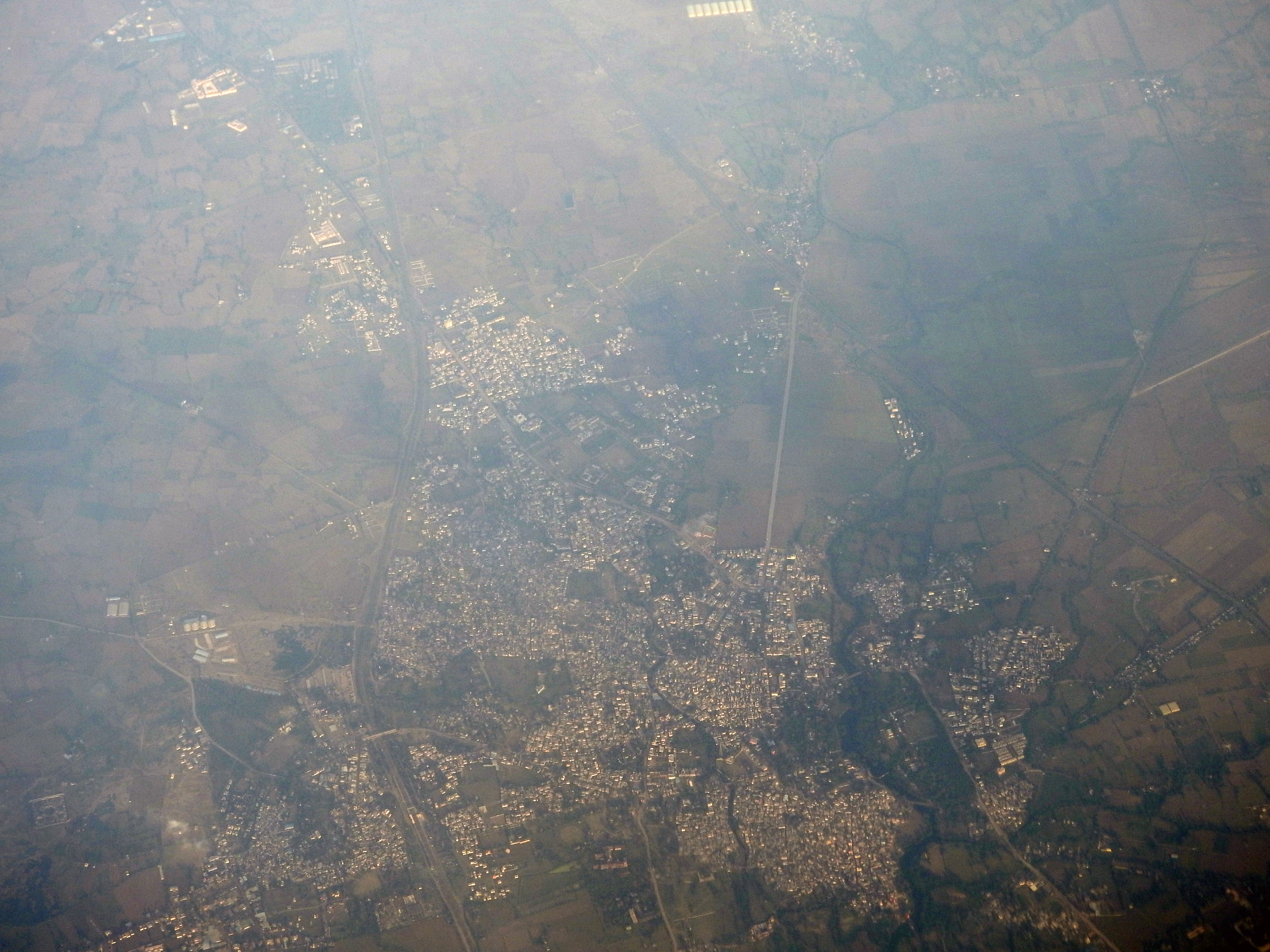 Aerial photograph of Sehore, Madhya Pradesh, India.